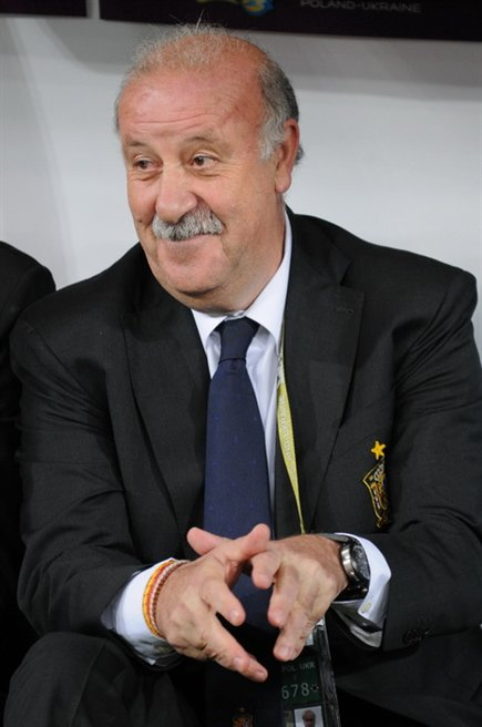 Vicente del Bosque at Euro 2012 final Spain-Italy